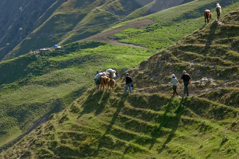 Mountains in Tusheti, Georgia